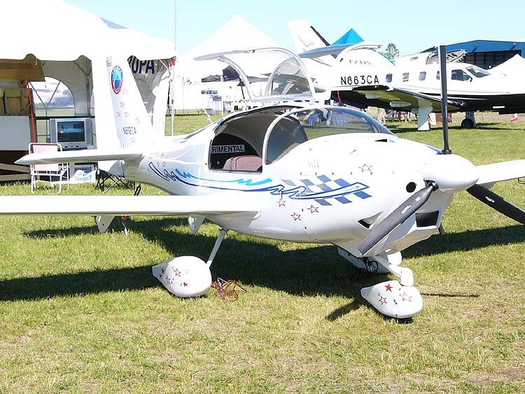 I took this photo of a US registered Europa kitplane at the Canadian Aviation Expo on 20 June 2004.